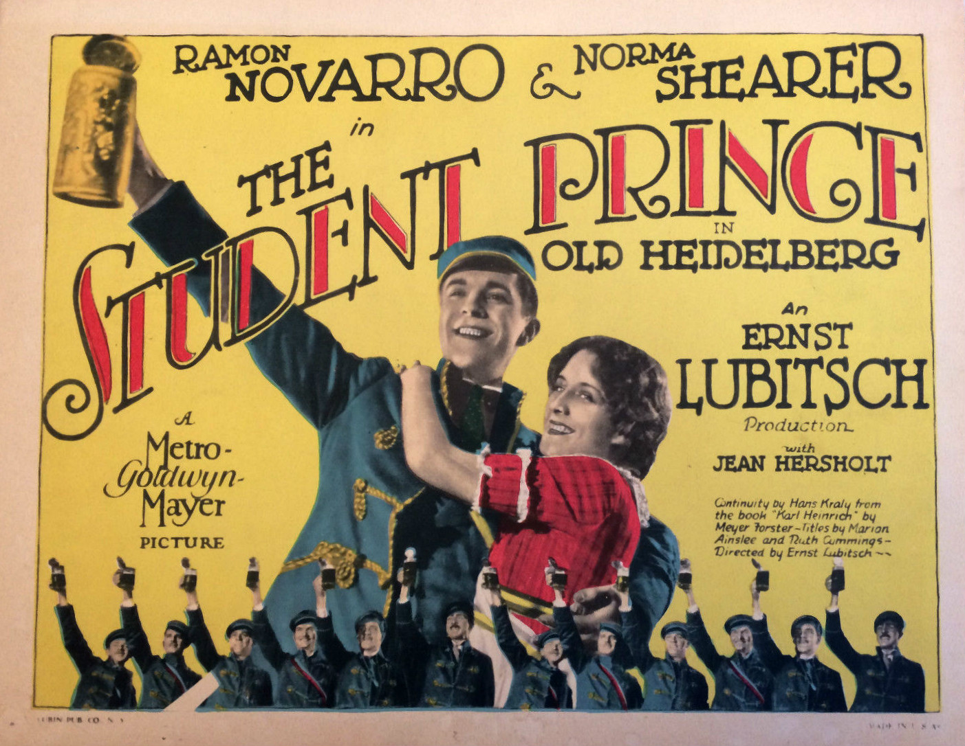 Lobby card for the American film The Student Prince in Old Heidelberg (1927).